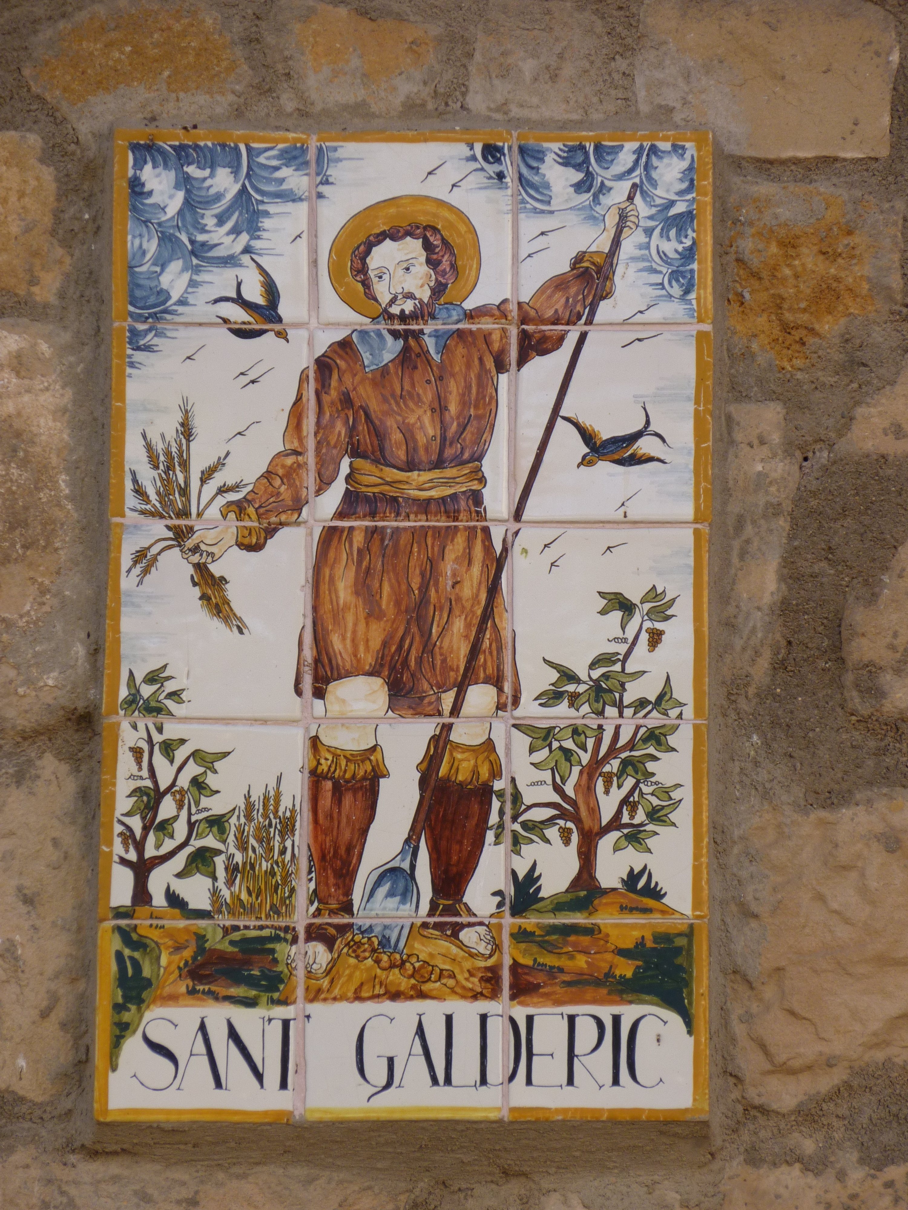 Image of San Galderic on polychrome ceramics in the facade of a building at "pla de l'església" in Ulldemolins